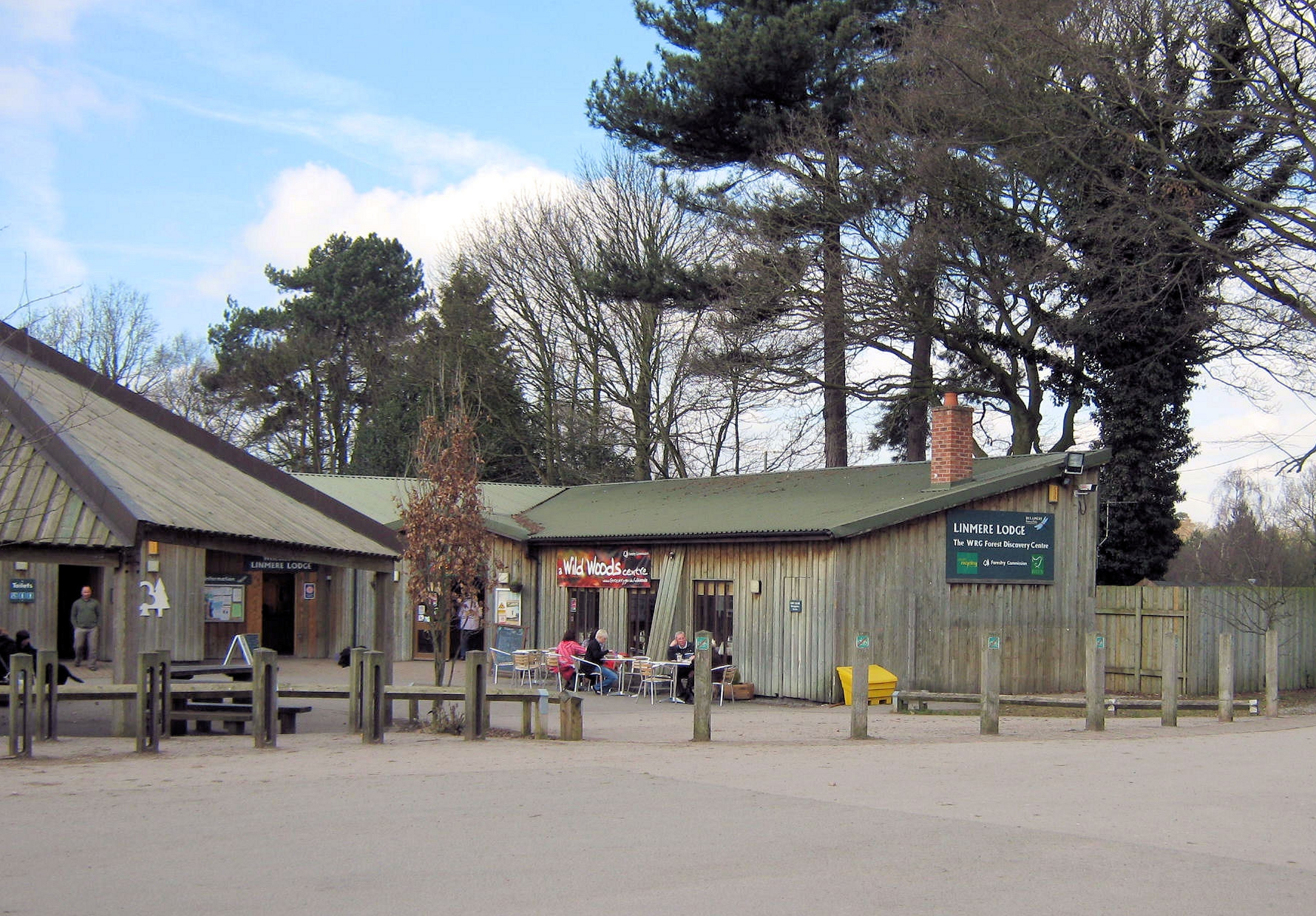 Wild Woods Visitor Centre